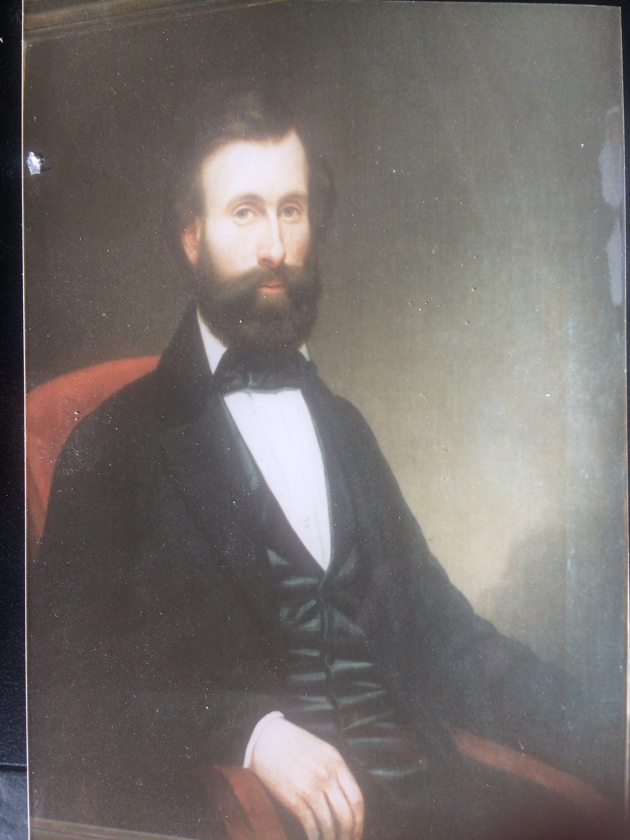 Portrait of Allen Benjamin Wilson